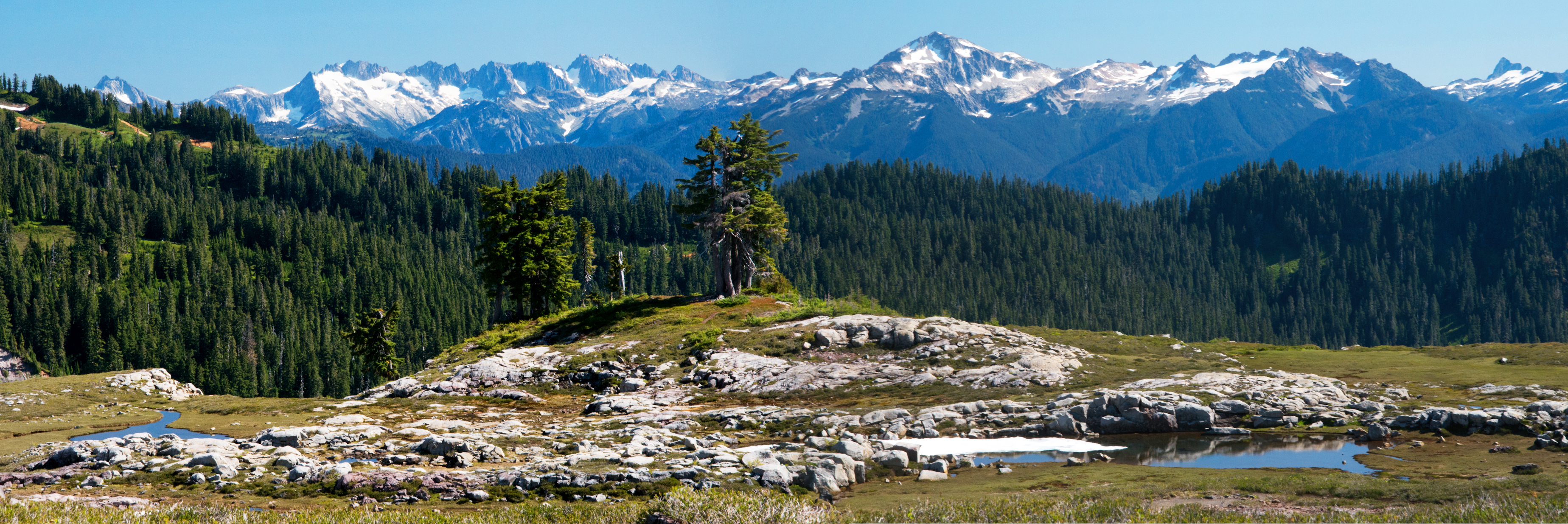 Cascades panorama from the upper meadow below Park Butte. To left is northern Picket Range. Mt. Blum and Hagan Mountain to right side.